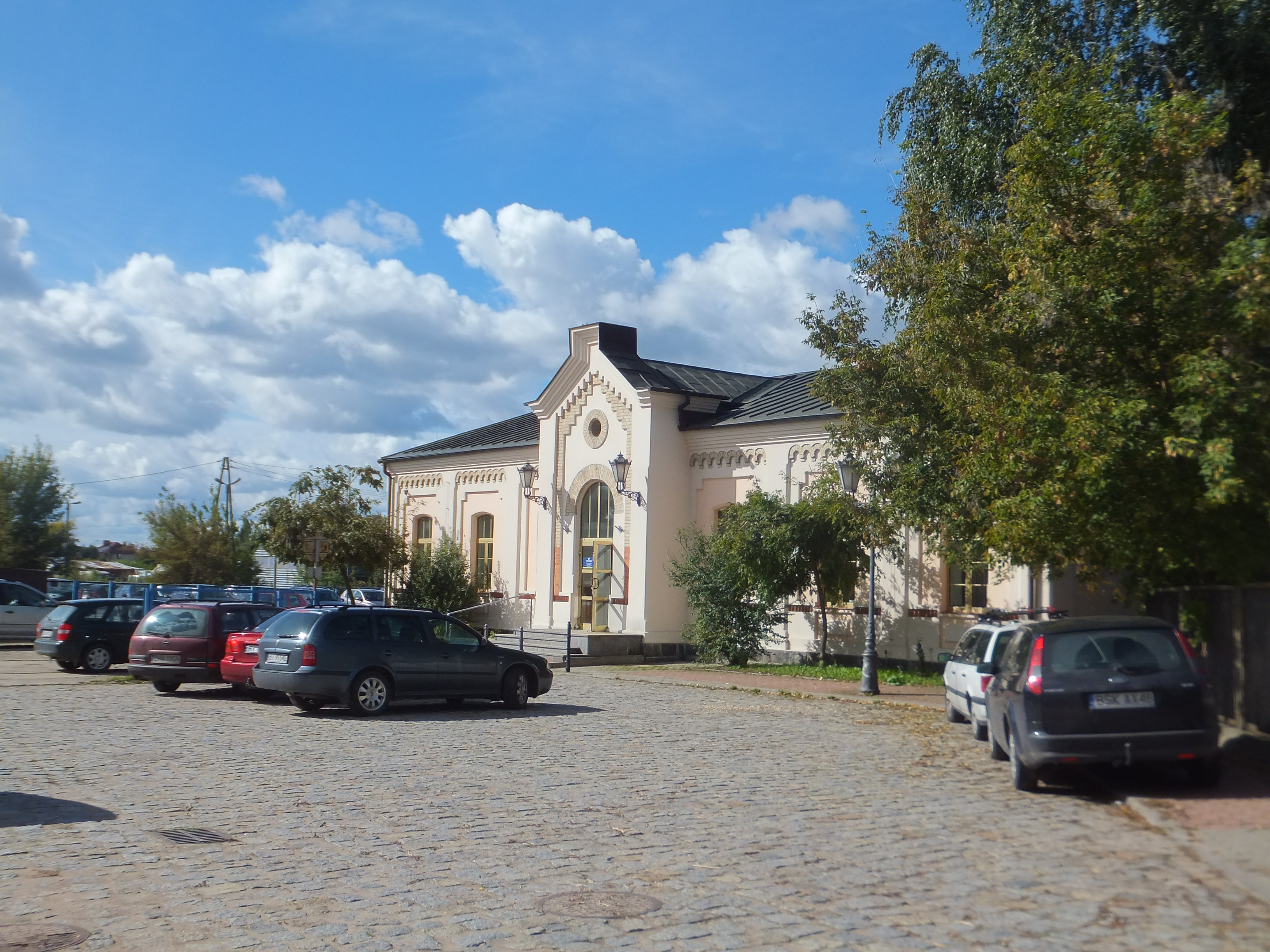 Białystok - Main Railway station - 1890